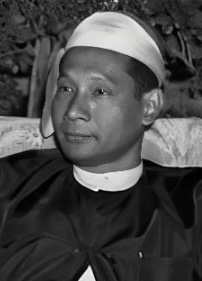 Ba Swe, former Deputy Prime Minister of Burma